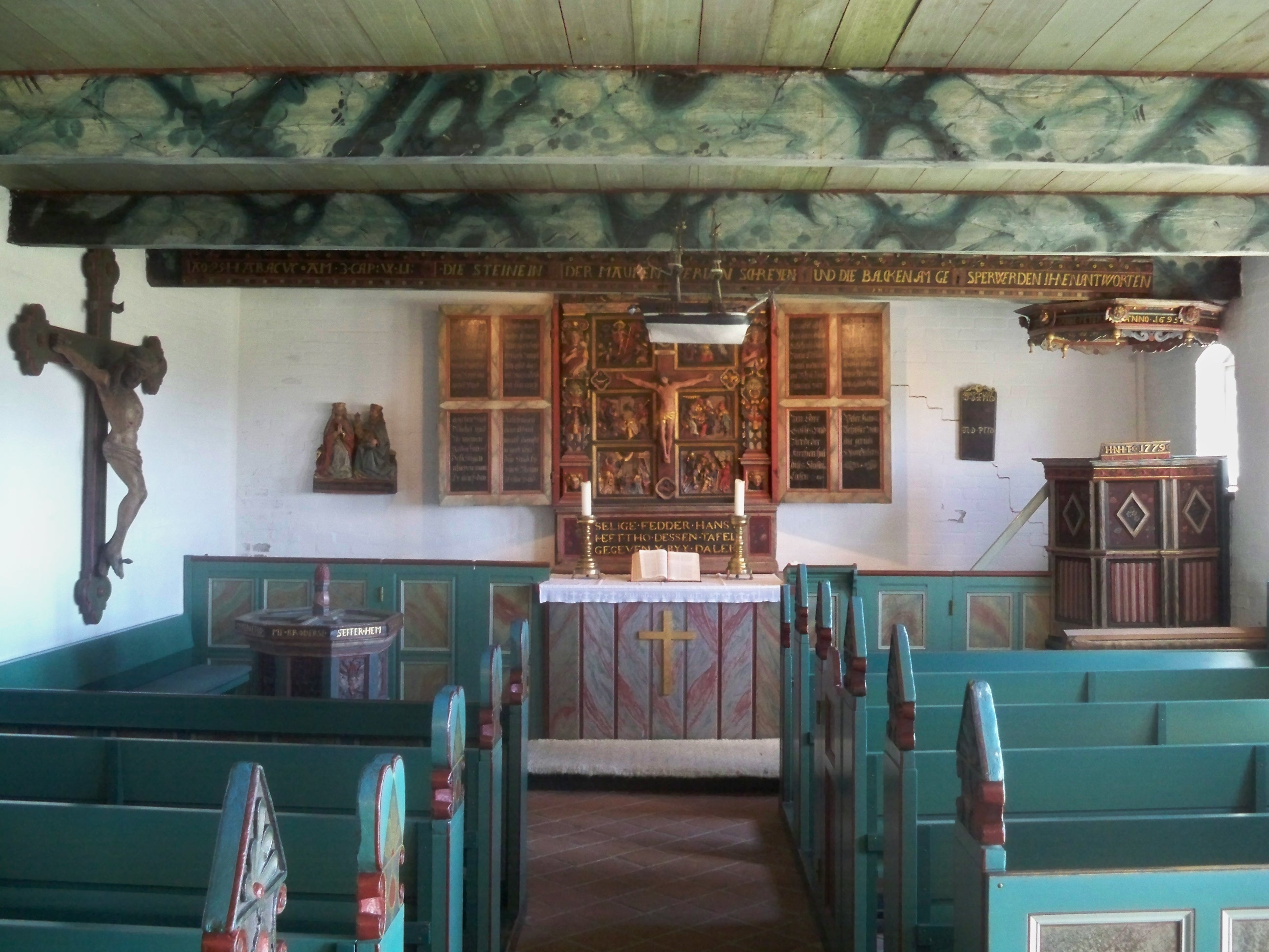 Gröde, Schleswig-Holstein, interior of the church